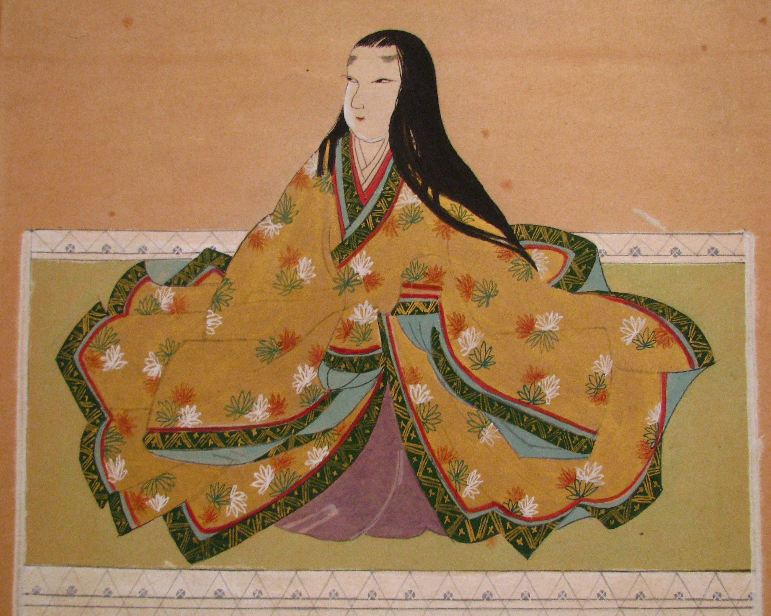 Portrait of Saigo-no-Tsubone (1562-1589), or Lady Saigo, first consort of Tokugawa Ieyasu and mother of Tokugawa Hidetada.